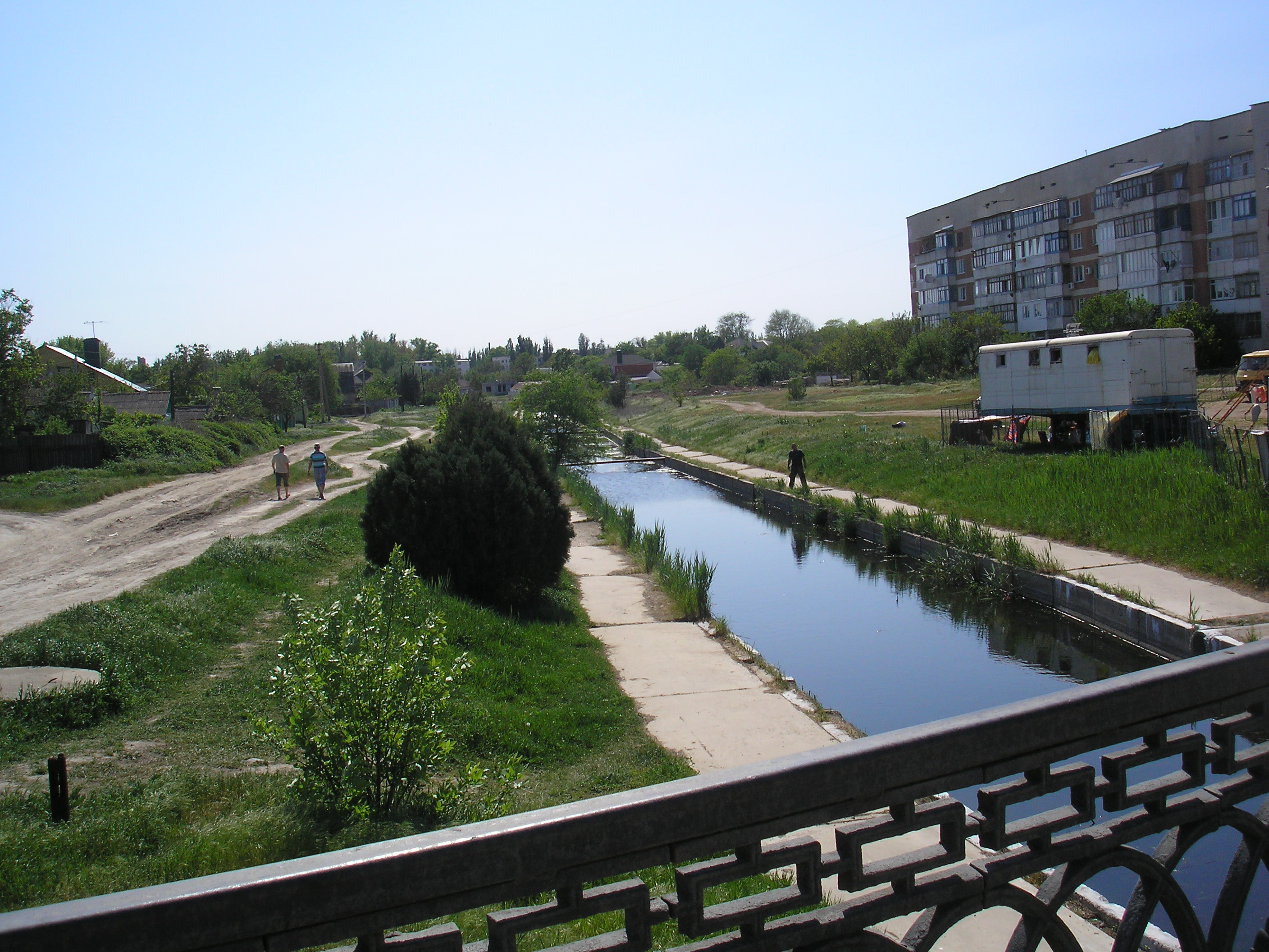 Stepnaya river, Crimea